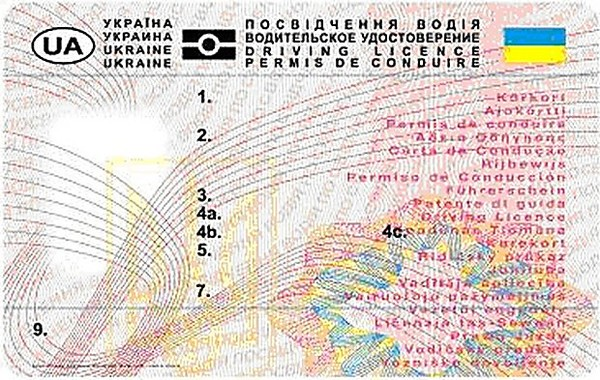 Ukrainian driving license, front page.